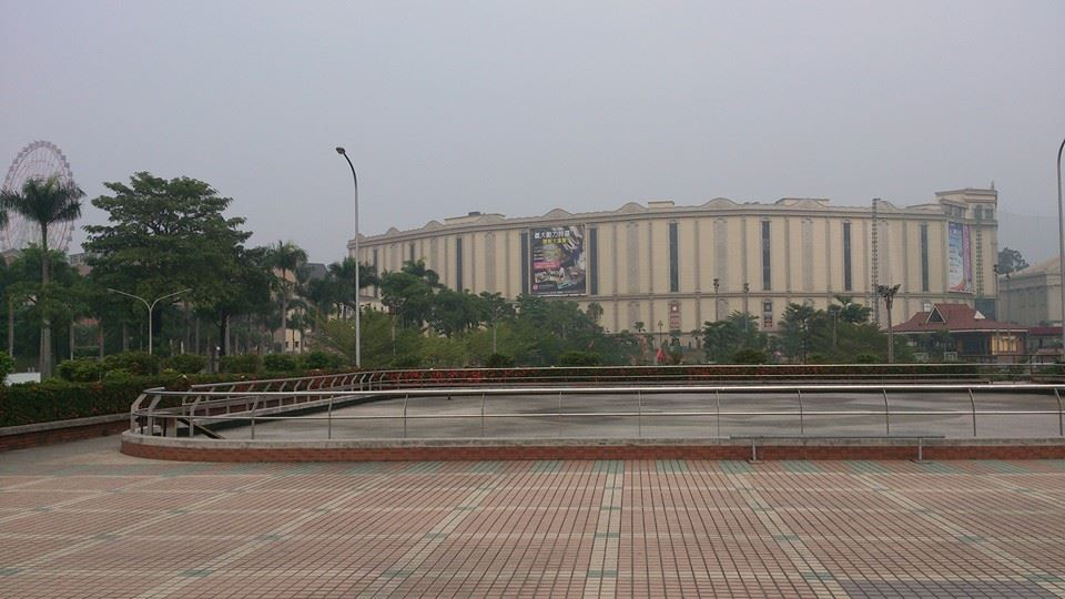 Vista of E-Da Outlet Mall.